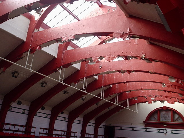 Concrete Roofing Struts Most of the old Victorian public baths have been demolished due to the fact that the roofing struts where made of Iron & have oxidized making the structures unsound. Govanhill baths designed by A.B. McDonald used concrete for the Struts and they are still structurally sound. You can also see a rail with small hoops used to hang trapeze swings & ropes from.